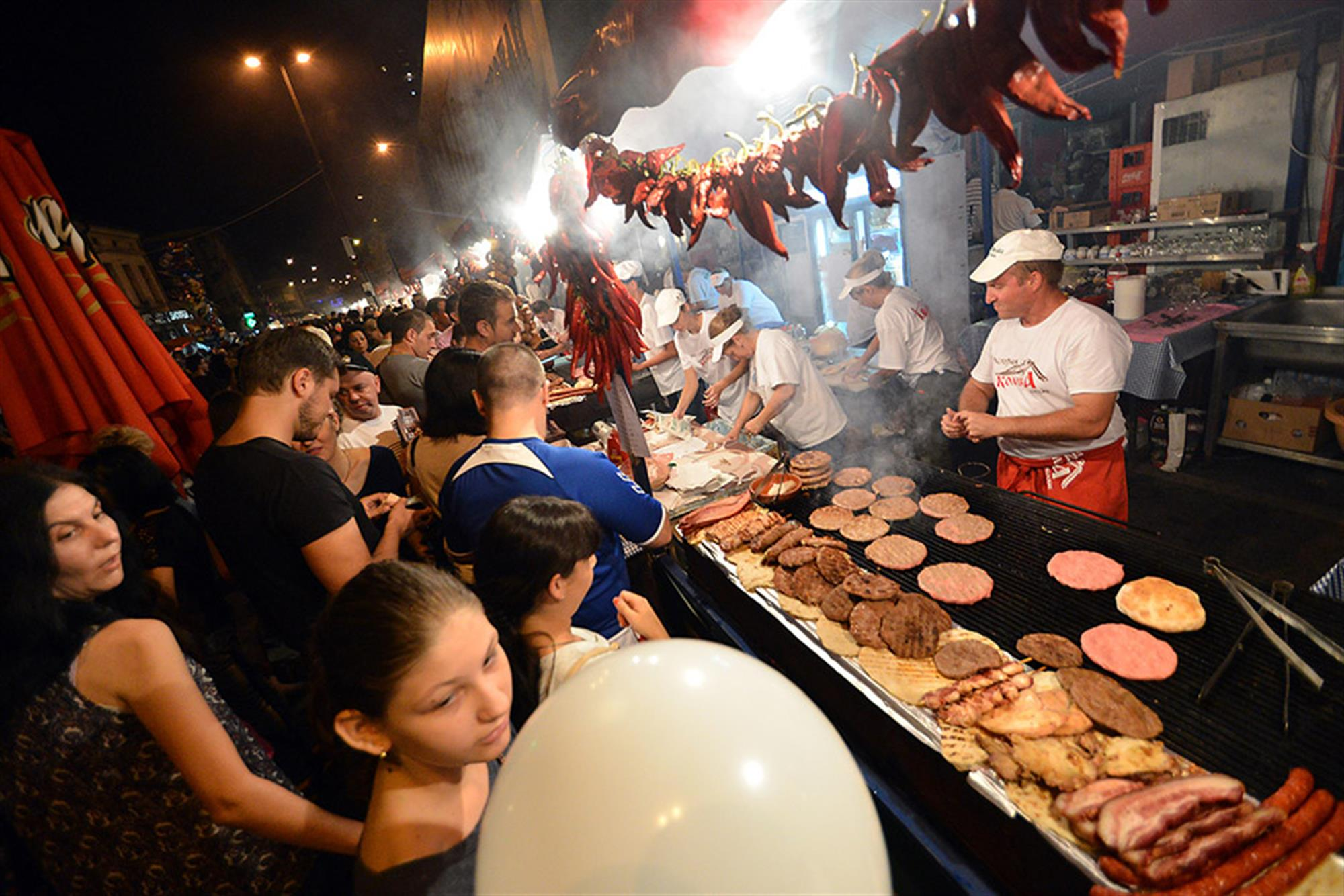 FOTO TANJUG / DIMITRIJE NIKOLIC